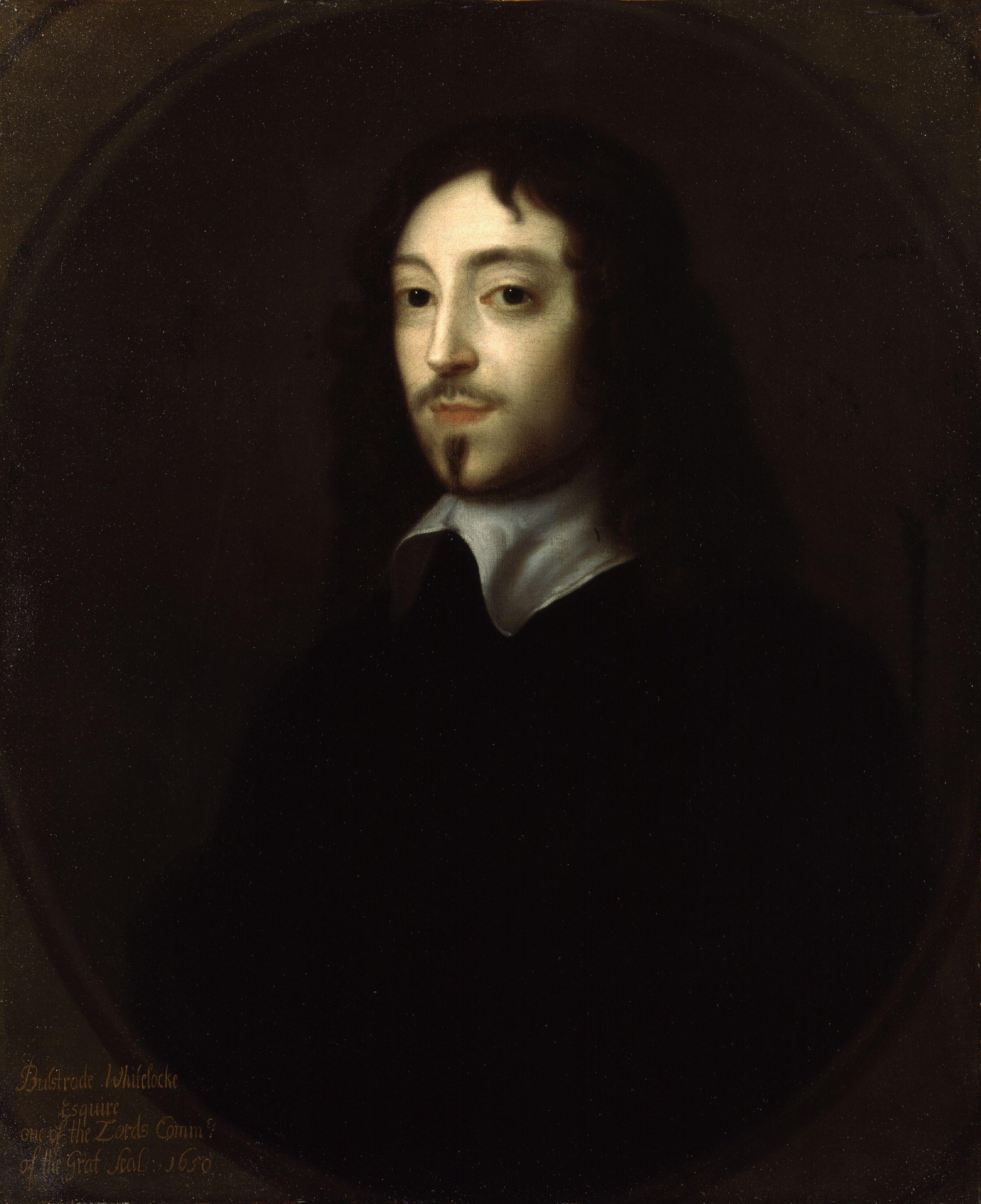 Bulstrode Whitelocke, by unknown artist. All images in this batch are listed as "unknown author" by the NPG, who is diligent in researching authors, and was donated to the NPG before 1939 according to their website.